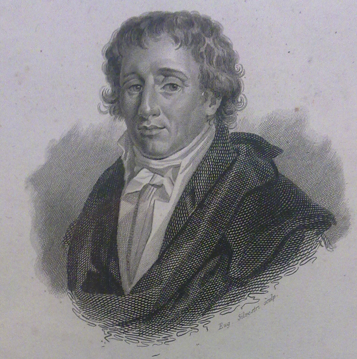 Ippolito Pindemonte, photo taken by me while I was visiting Rome.